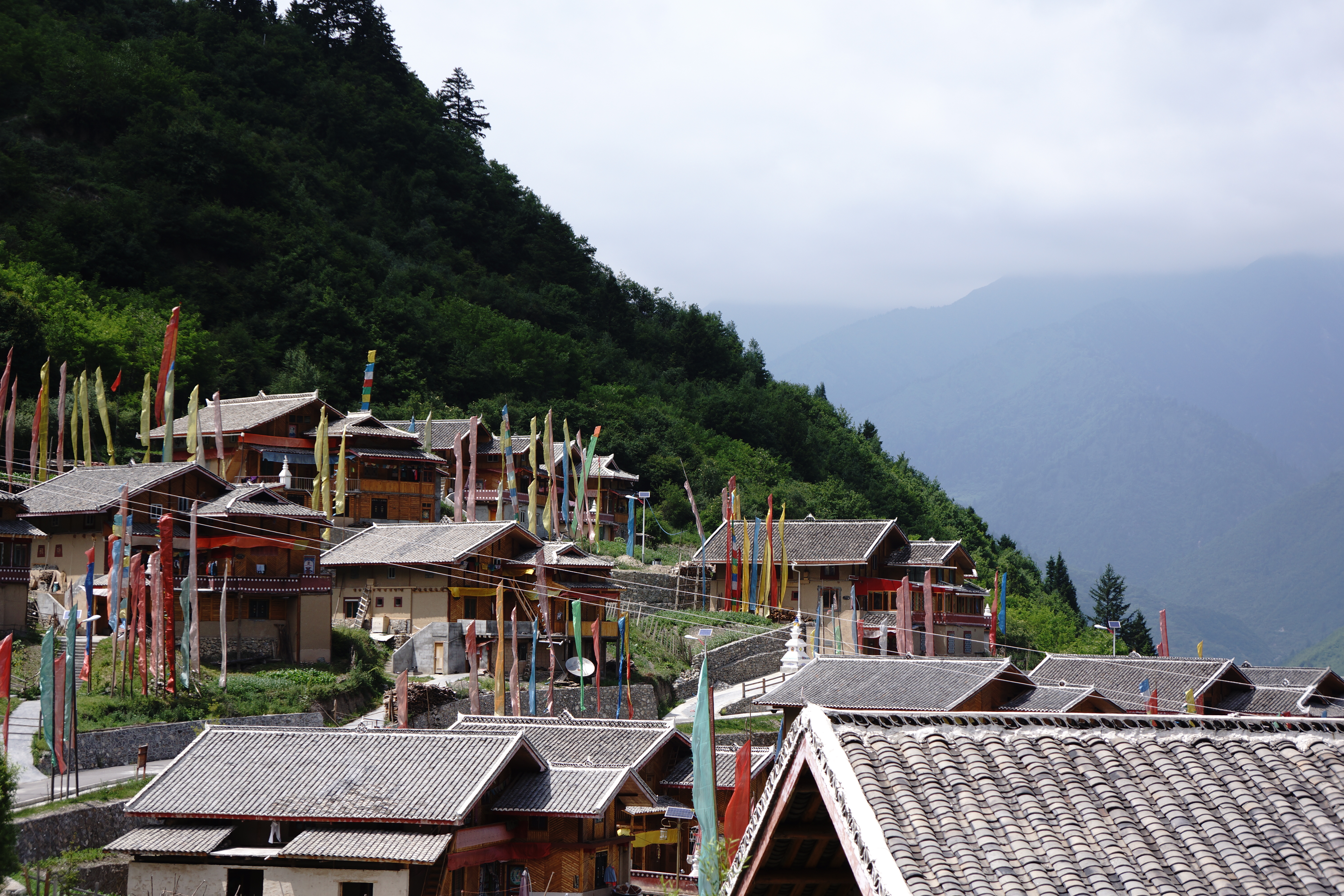 View of the village - Zhongchagou , Aba , Sichuan , China